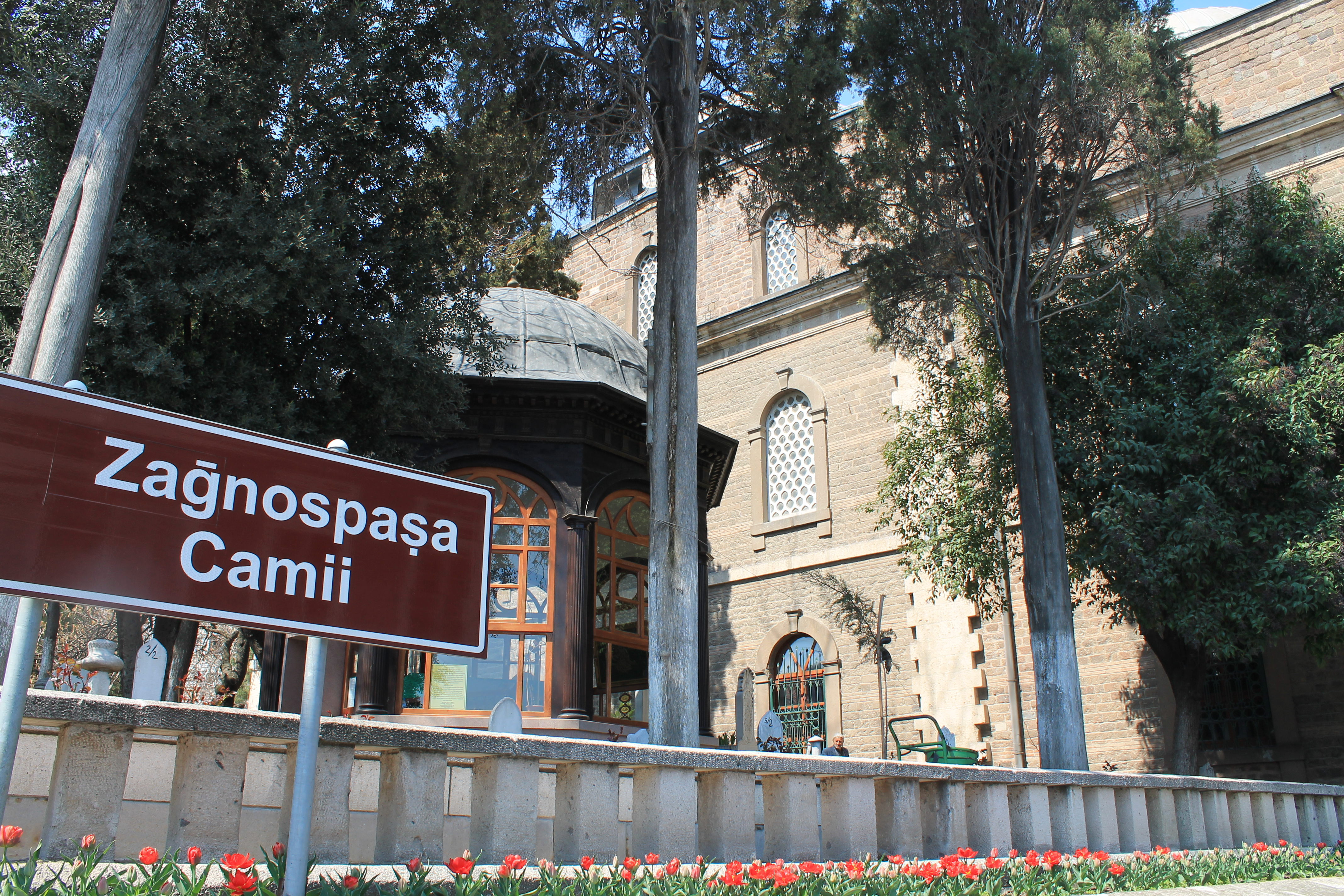 Zaganos Pasha Mosque or shortly Pasha Mosque and the small building is tomb of him, Balıkesir